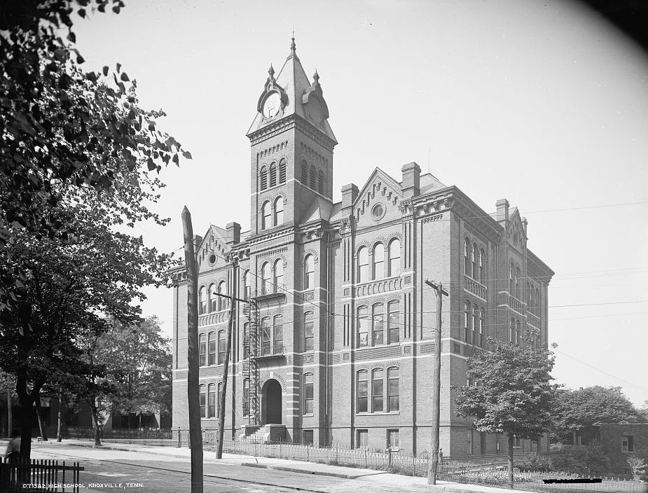 Girls' High School in Knoxville, Tennessee, USA, photographed in the early 1900s. This school operated from the 1870s until 1910, when the coeducational Knoxville High School opened. The school building, constructed in 1886 and designed by architect Joseph Baumann, was located along Union Avenue, just west of Market Square.